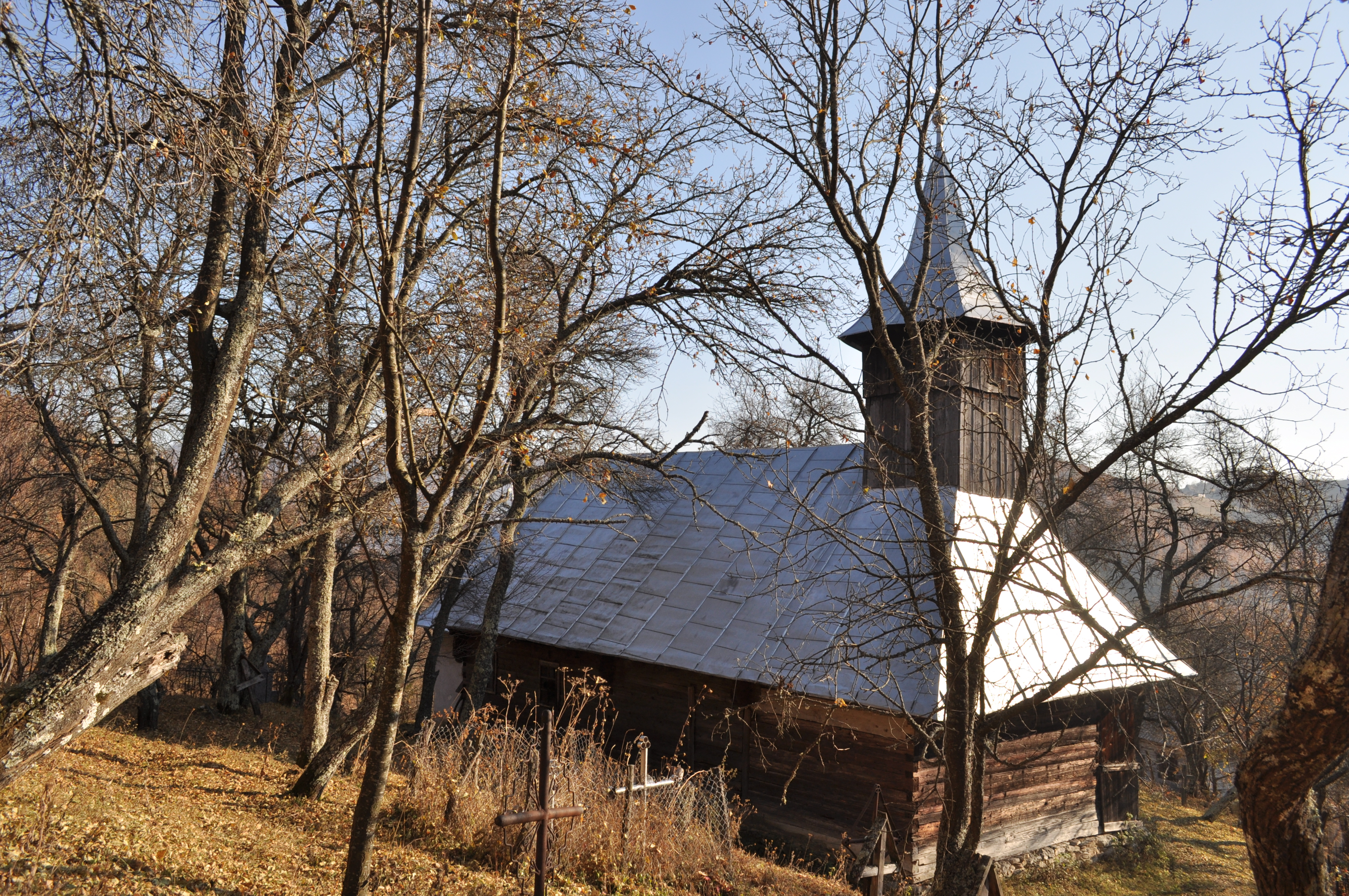 Biserica de lemn din Dealu Geoagiului, județul Alba